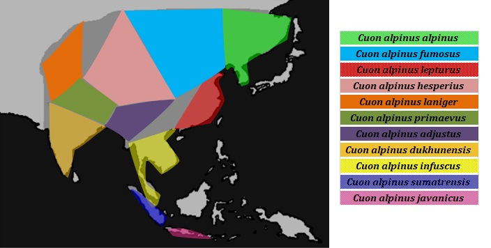 rough map depicting distribution of eleven dhole (cuon alpinus) subspecies